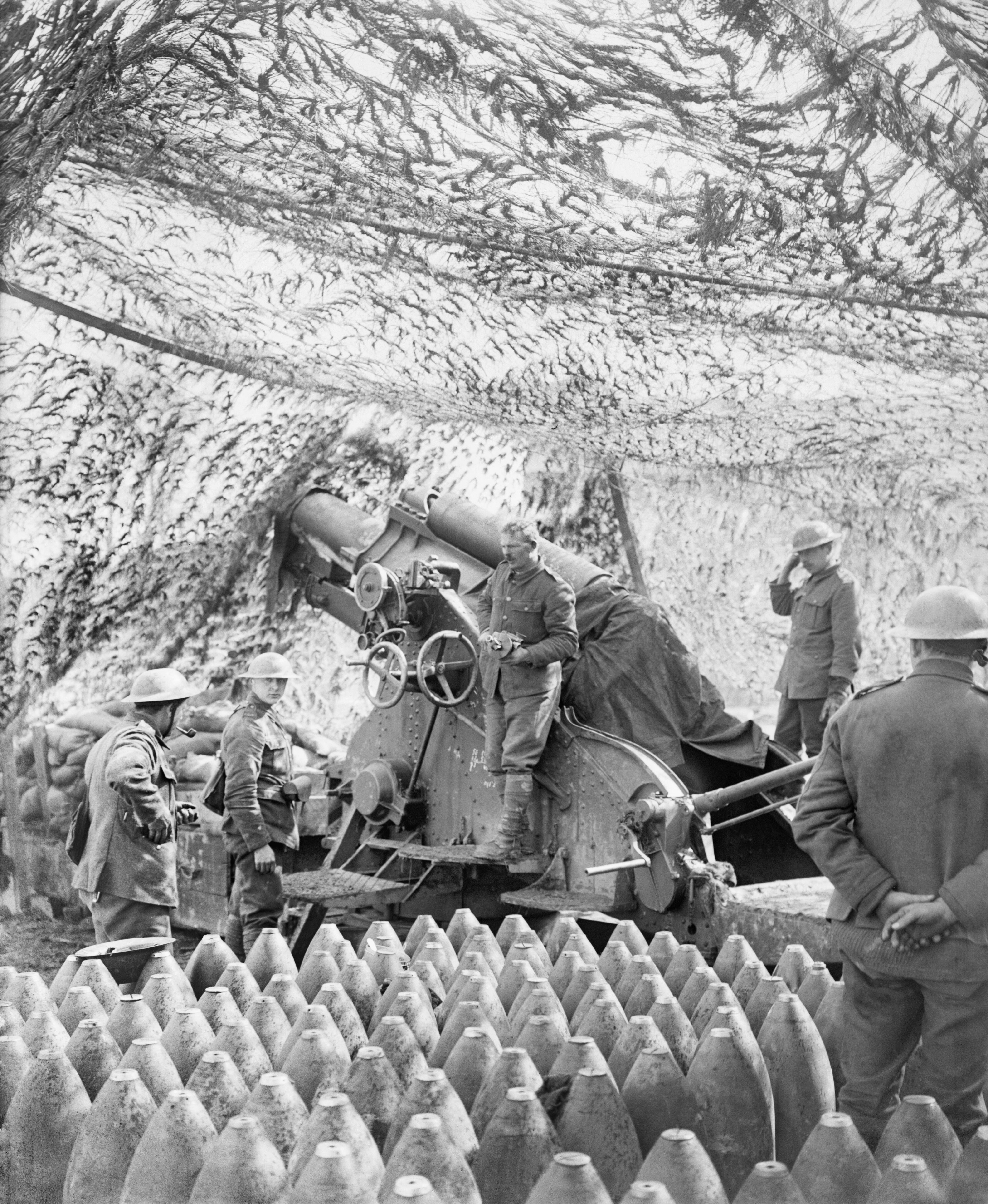 IWM description : "THE BATTLES OF ARRAS 9 APRIL - 15 MAY 1917. A 9.2-inch Howitzer of 91st Battery, Royal Garrison Artillery in position under camouflage netting in readiness for the opening barrage of the Battle of Arras, 1 April 1917"